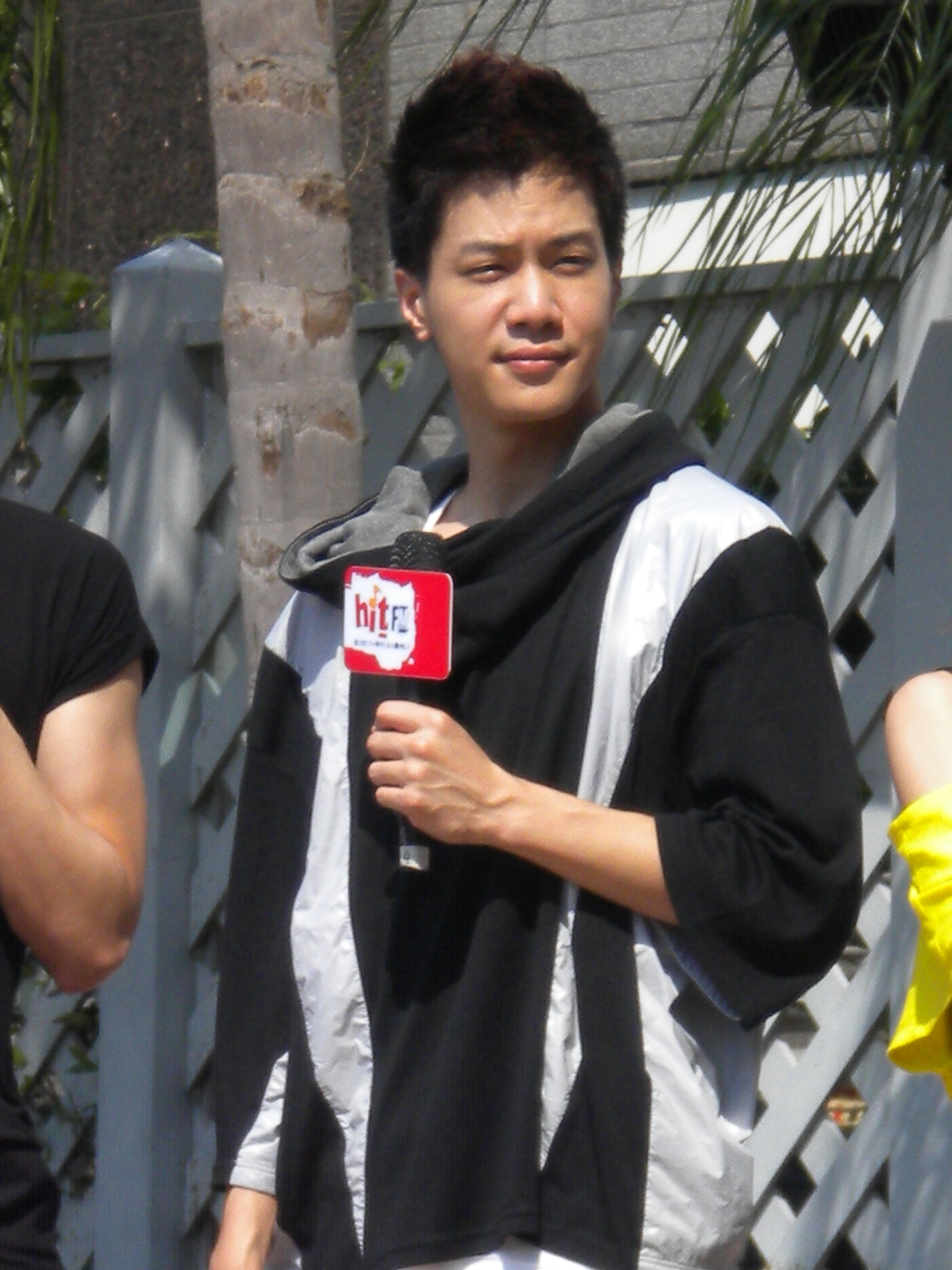 Da Mouth's MC/Rapper